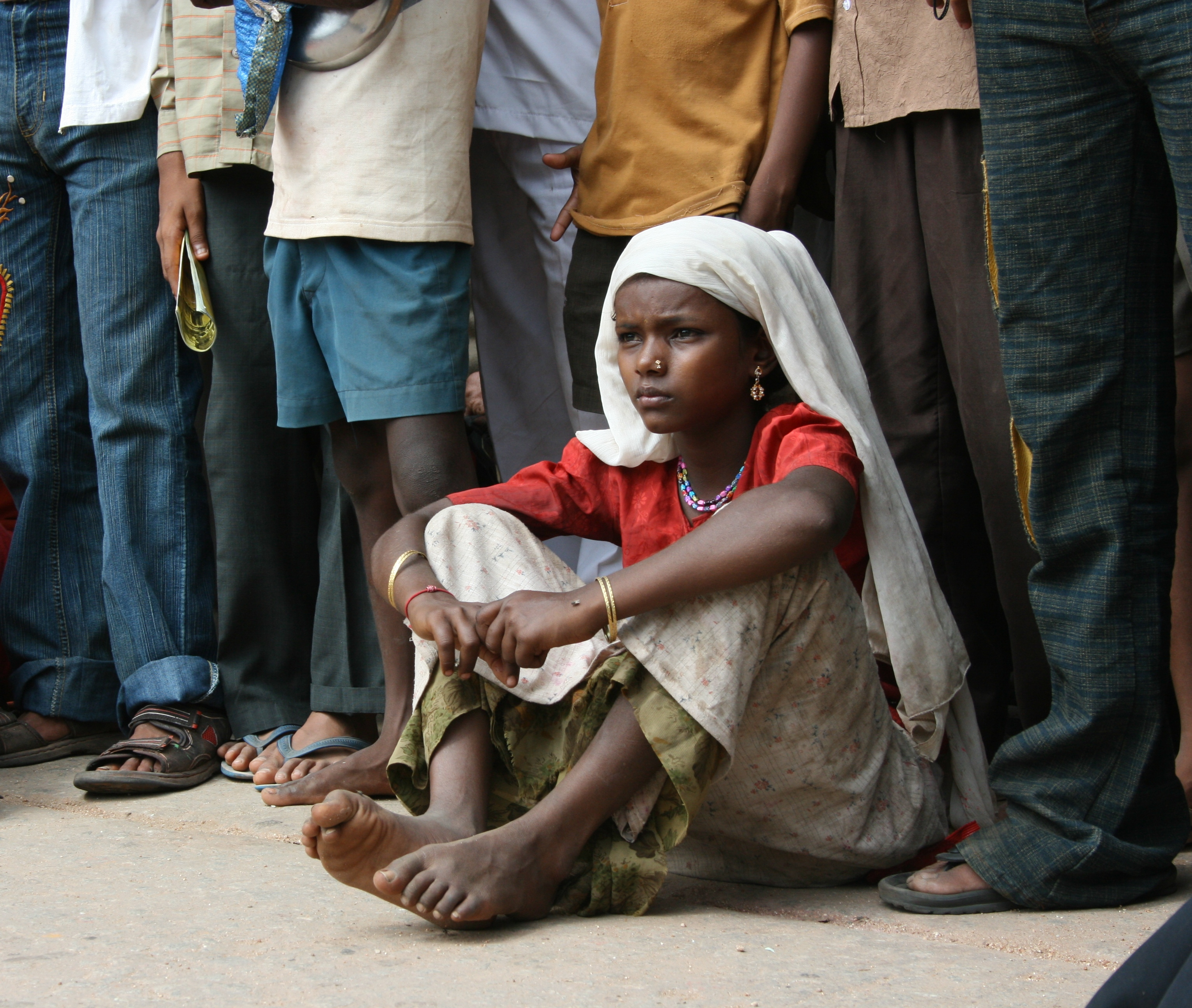 Girl seated on the ground in Udaipur, in front of many legs, watching something.